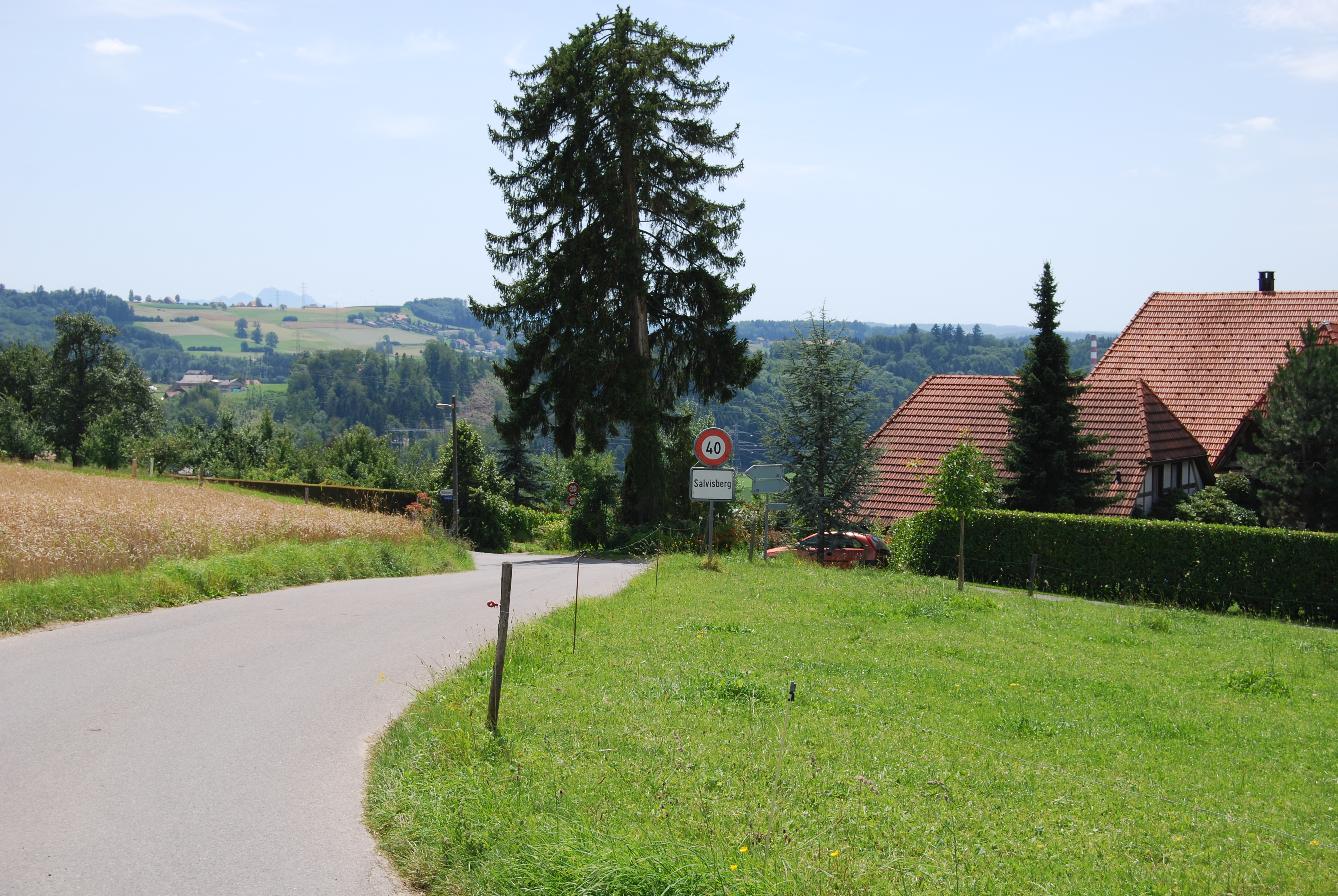 Salvisberg, municipality of Wohlen bei Bern, canton of Bern, Switzerland